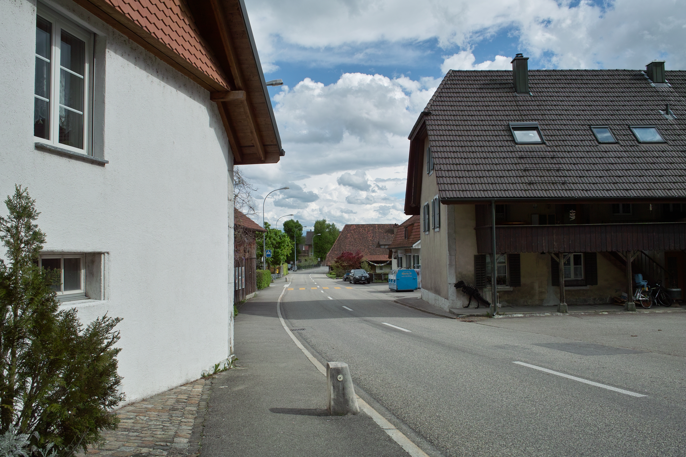 In Flumenthal, canton of Solothurn, Switzerland.